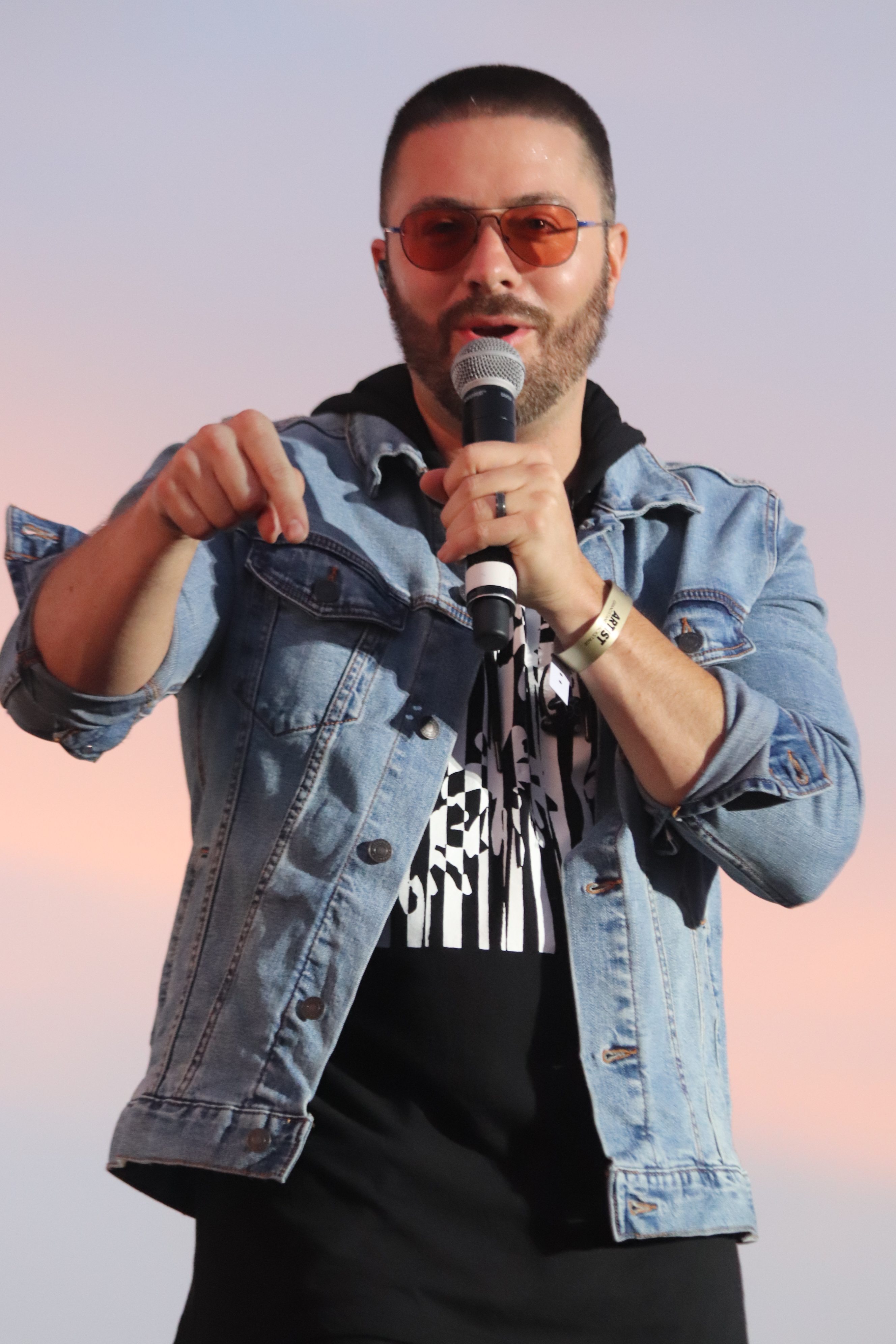 Danny Gokey performing at Lifest.